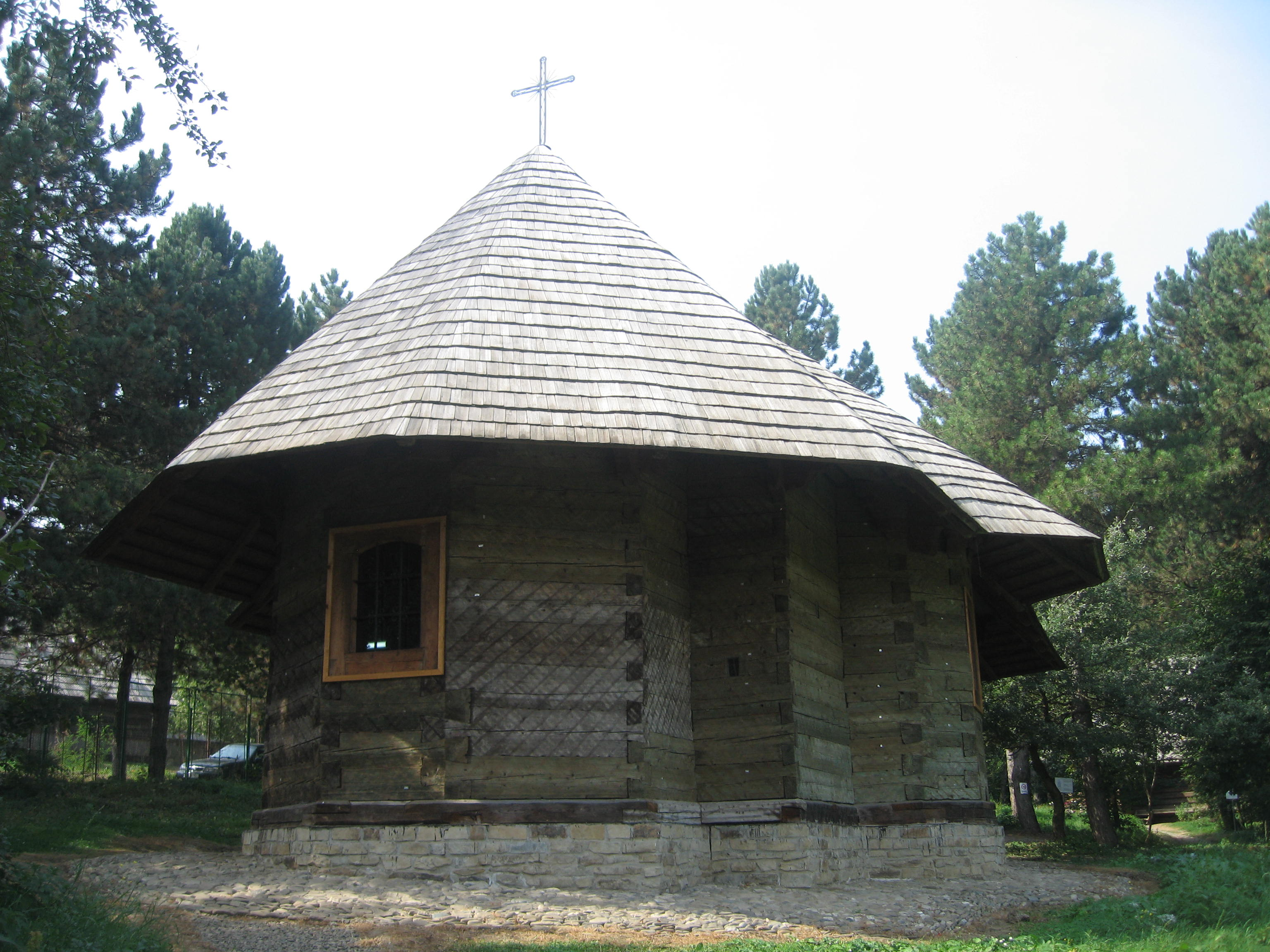 Bukovina Village Museum - Ascension Wooden Church from Vama.